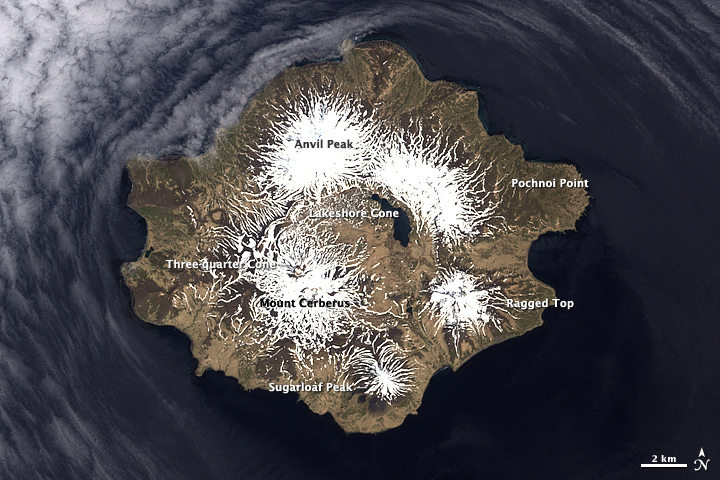 Landsat 7 satellite picture of Semisopochnoi Island, Aleutian Islands, Alaska